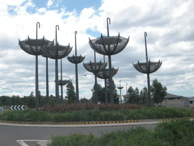 Roundabout on the edge of Kellyville Ridge with interesting umbrella sculptures